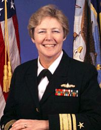 RADM Annette Elise Brown